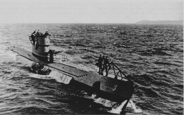 Romanian submarine Marsuinul during a mission in the Black Sea